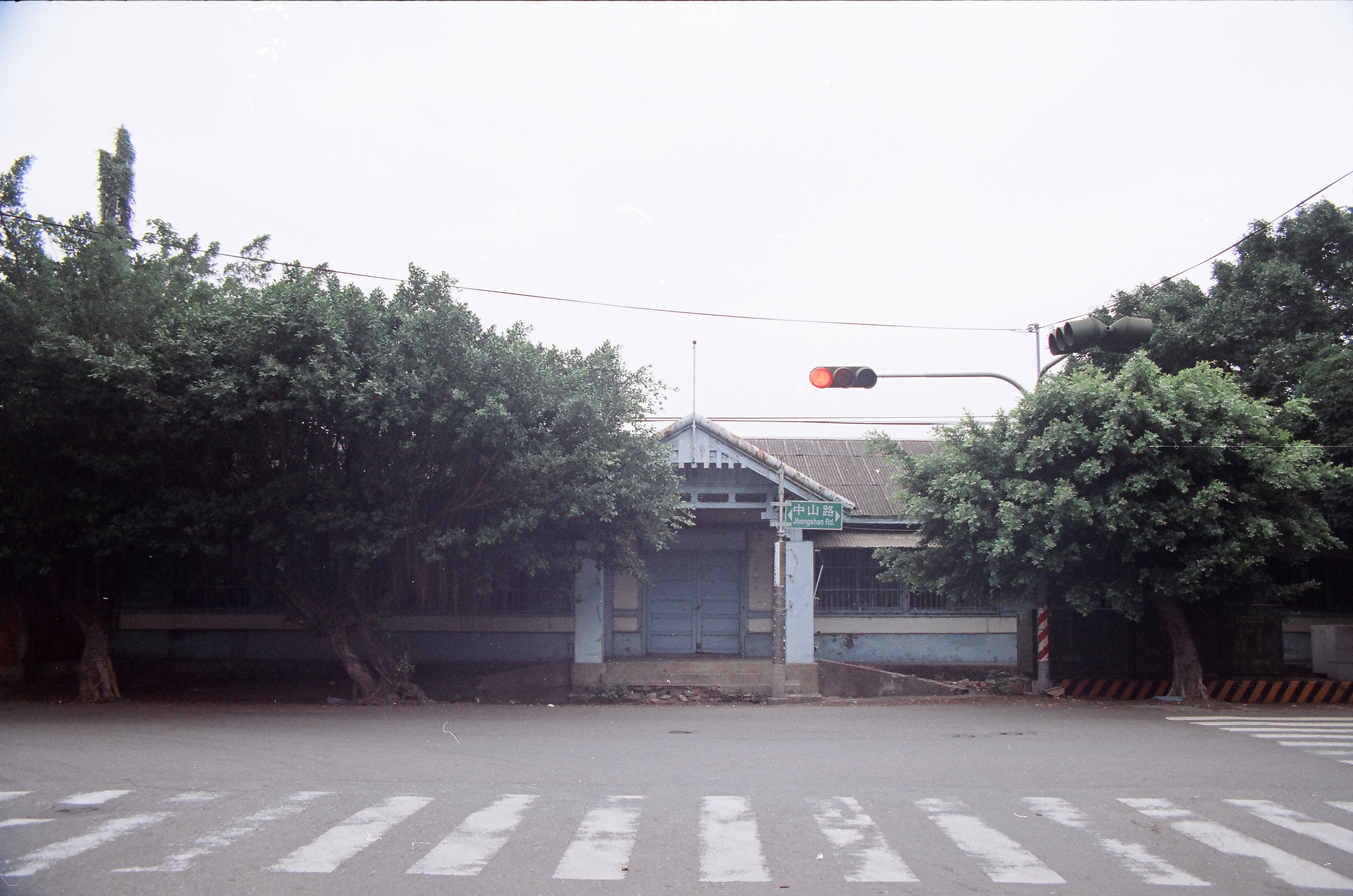 Old Huwei Station